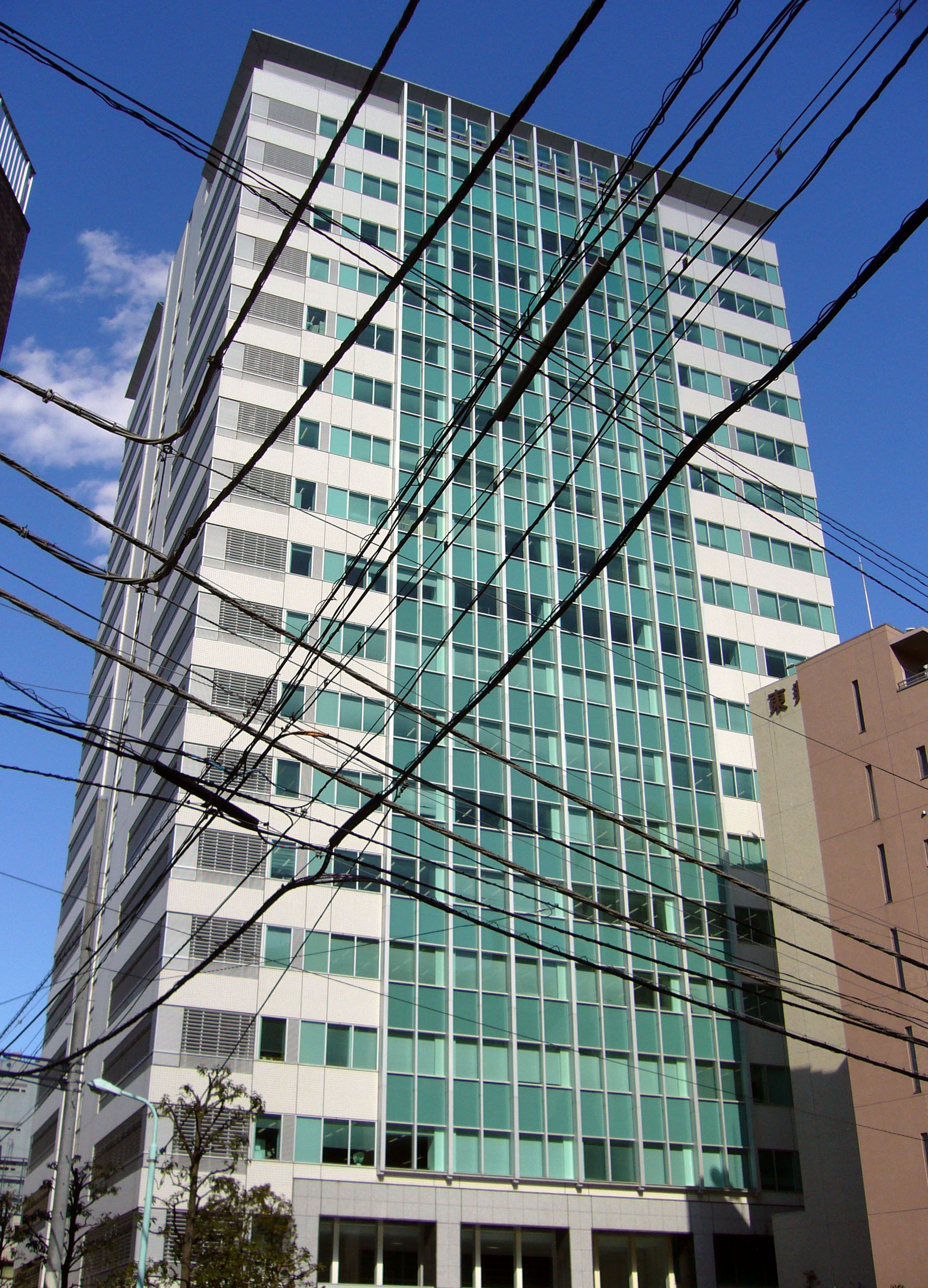 Ebisu Business Tower (Office building in Tokyo, Japan)